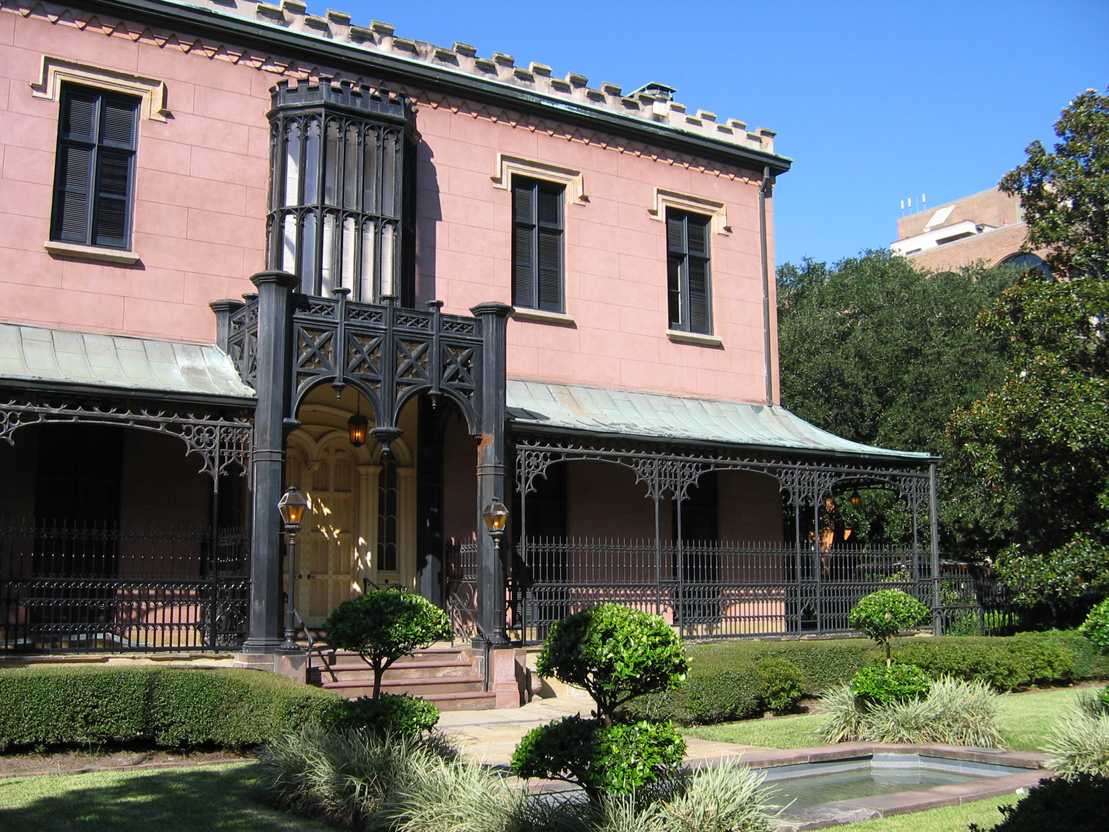 Located in the Savannah Historic District, the Green-Meldrim house was built during the 1850s. During the Civil War, General William Tecumseh Sherman stayed here after his March to the Sea. The house also exemplifies Gothic revival architecture, with detailed ironwork that is commonly found in Savannah.